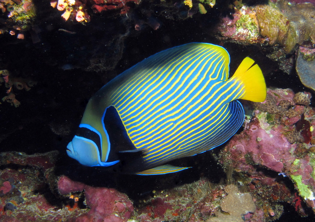 Emperor Angelfish, Pomacanthus imperator at Gota Abu Ramada, Red Sea, Egypt #SCUBA